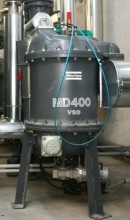 Heat of compression desiccant dryer